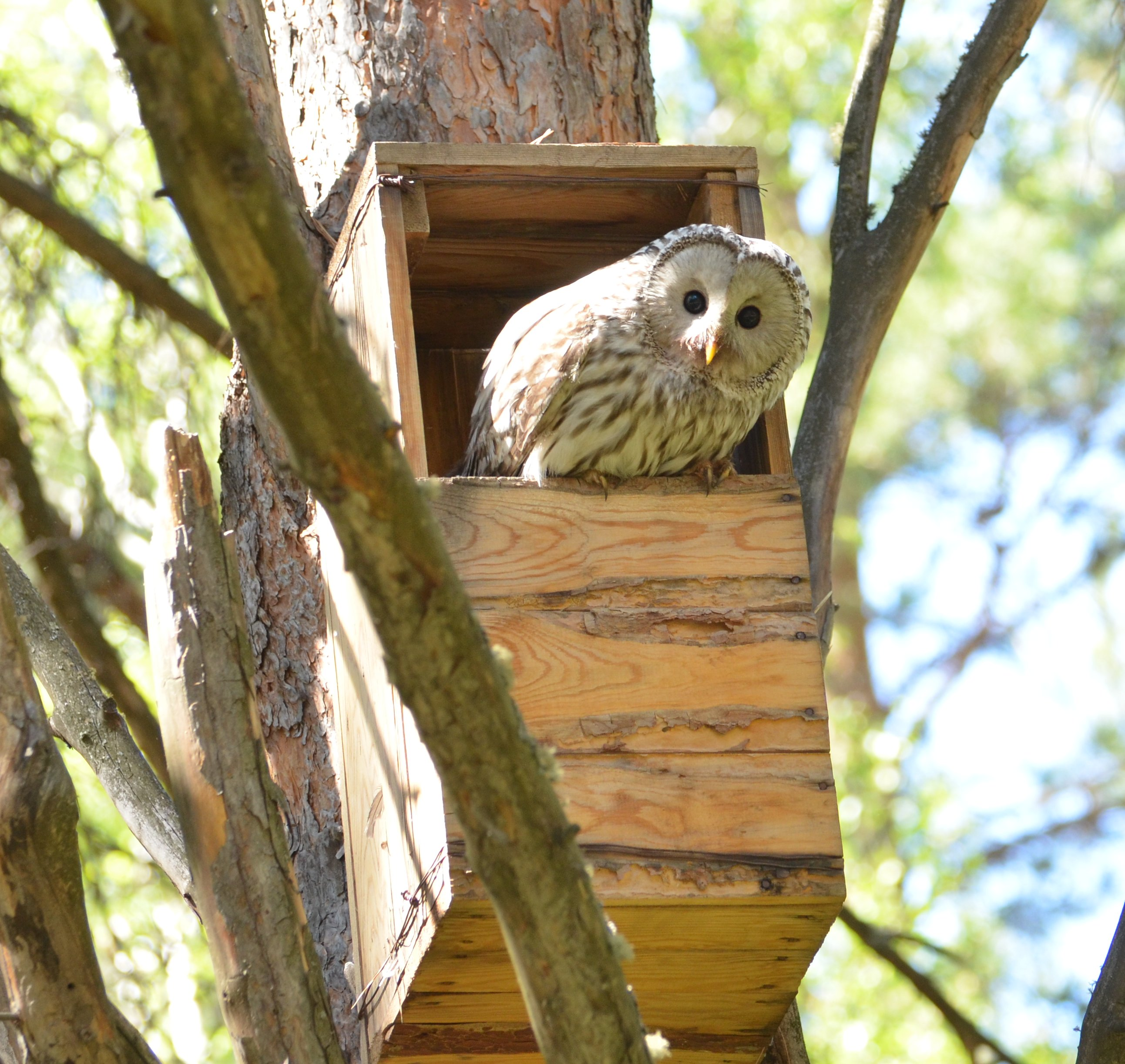 Ural Owl in nestbox, near Novosibirsk.